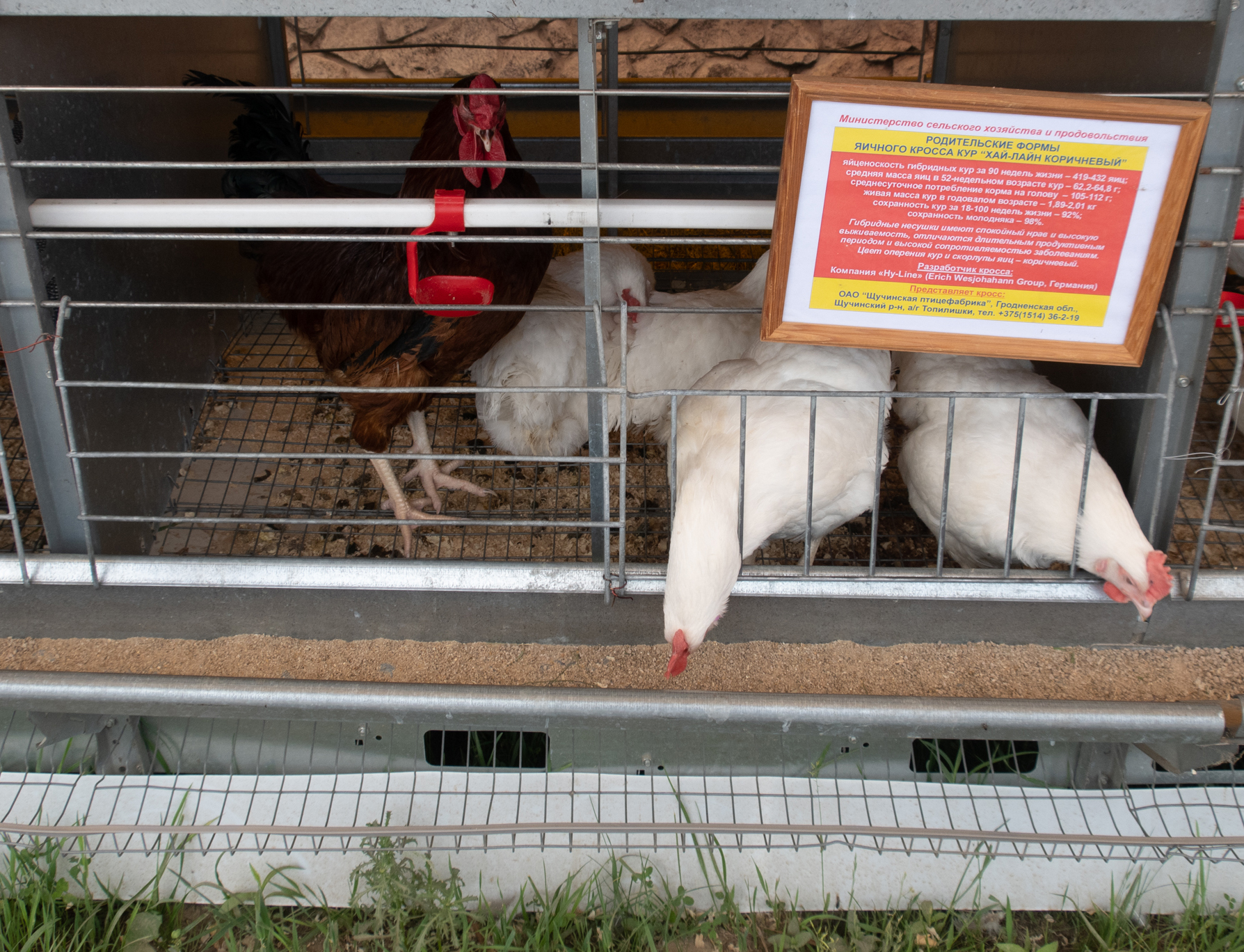 Photo taken at Belagro-2019 exhibition (Minsk district, Belarus)